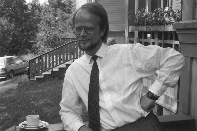 Photograph of the Finnish interior designer and professor Yrjö Sotamaa (1942–) in Savitaipale during “Suomi-kuva” seminar.